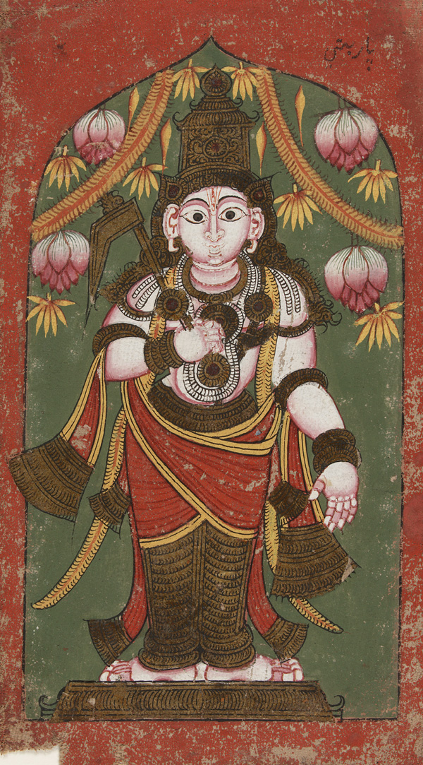 17th century mural of Balarama from a wall hanging in an Indian temple.